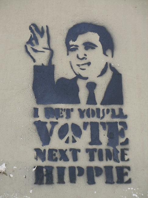 Graffiti in Georgia's capital, Tbilisi, features the country's president, Mikheil Saakashvili.